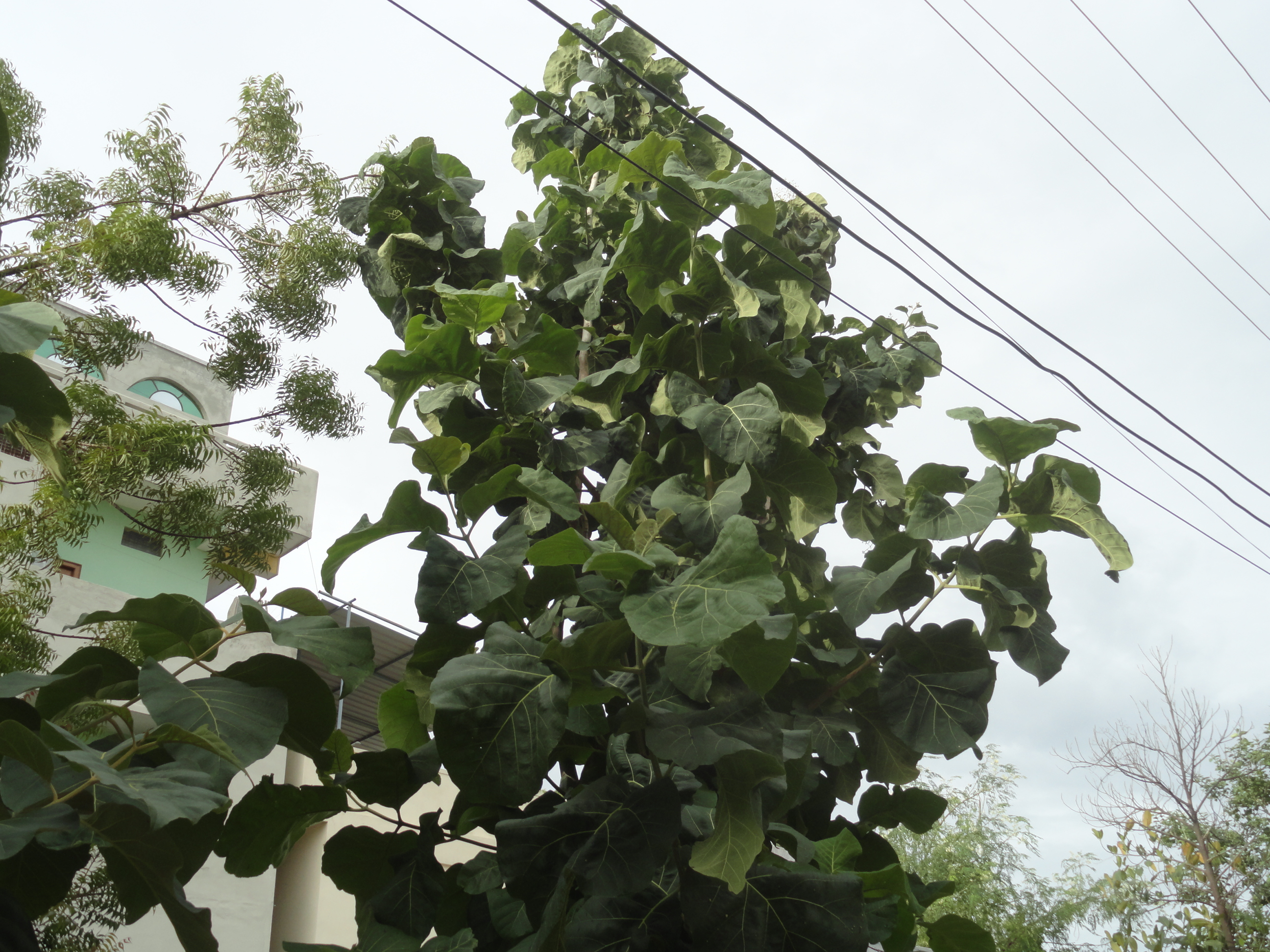 టేకు చెట్టు